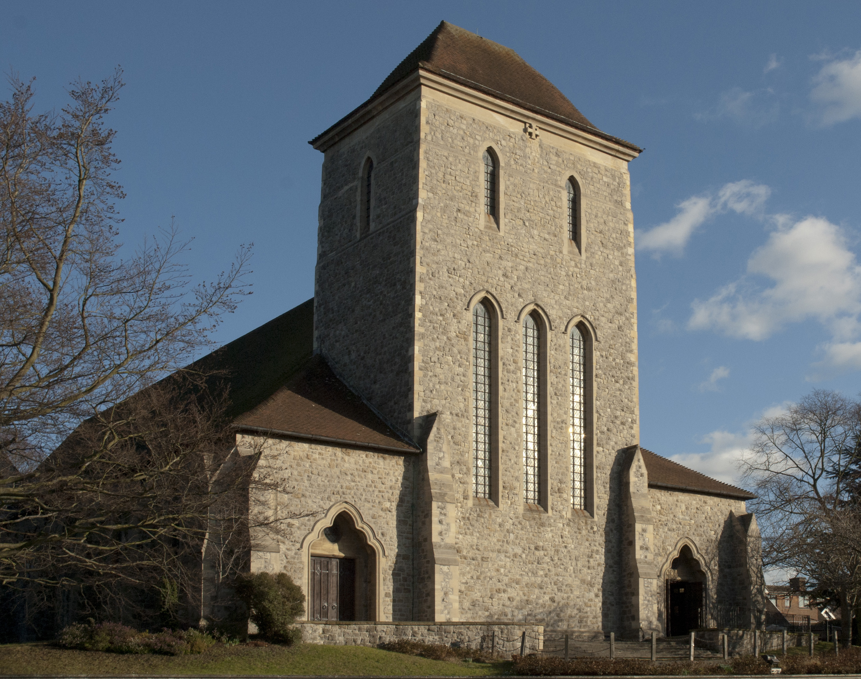 All Saints' Hockerill, Bishop's Stortford. Architecture by Stephen Dykes Bower. West front with central tower and flanking aisle entrances.